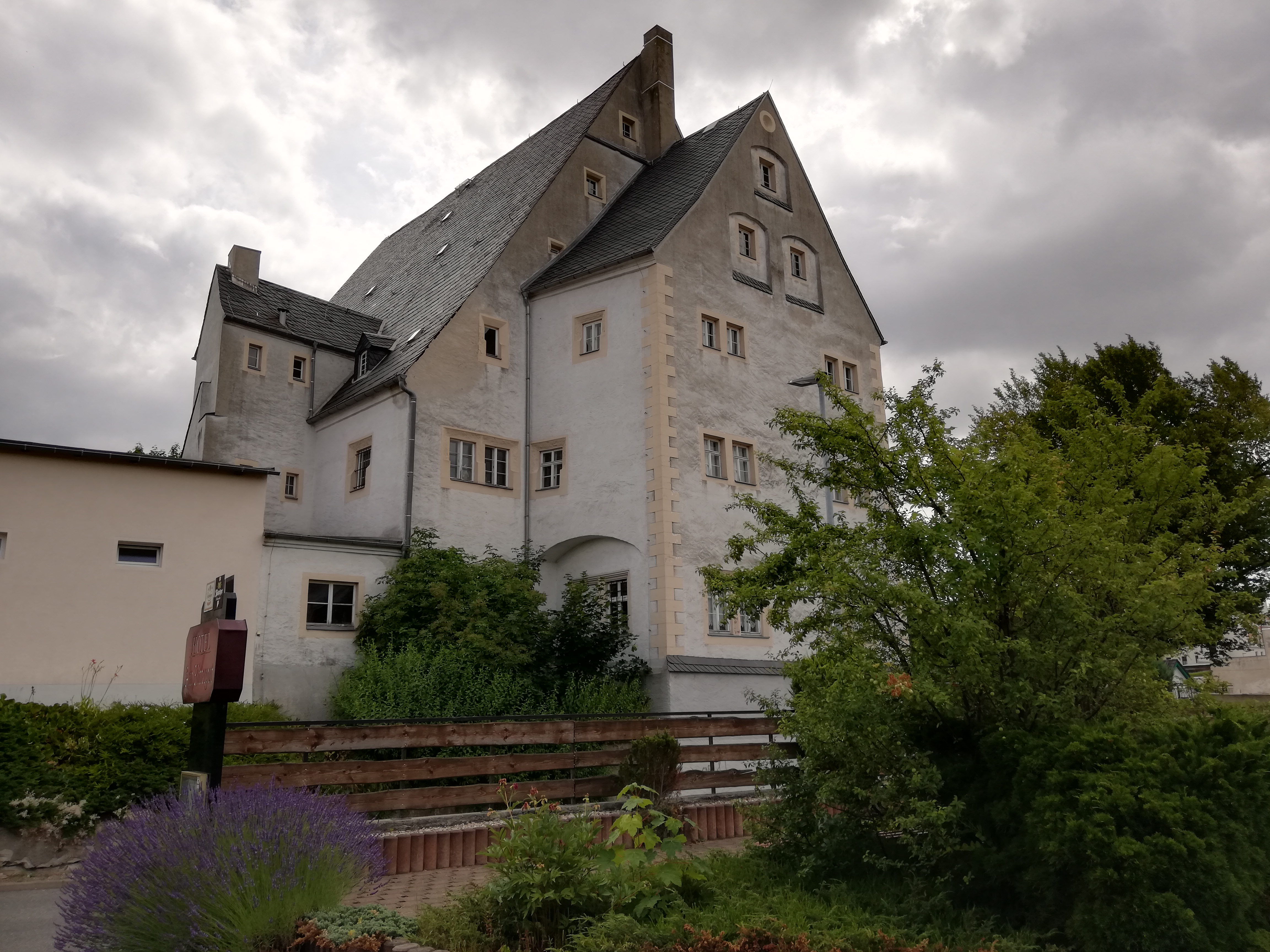 Manor house at Frankenberg/Saxony, Germany